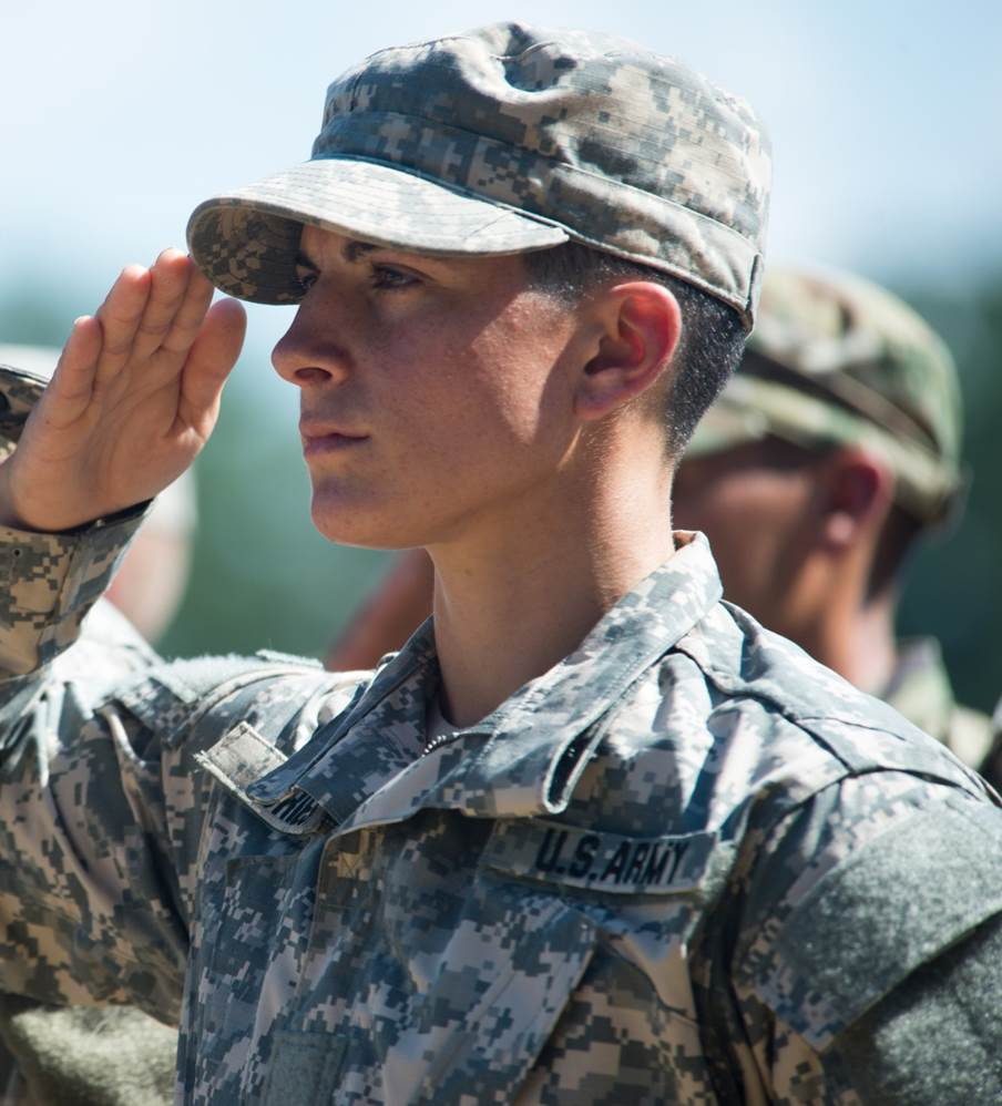 Cpt. Kristen Griest and U.S. Army Ranger School Class 08-15 render a salute during their graduation at Fort Benning, GA, Aug. 21, 2015. Griest and class member 1st Lt. Shaye Haver became the first female graduates of the school.